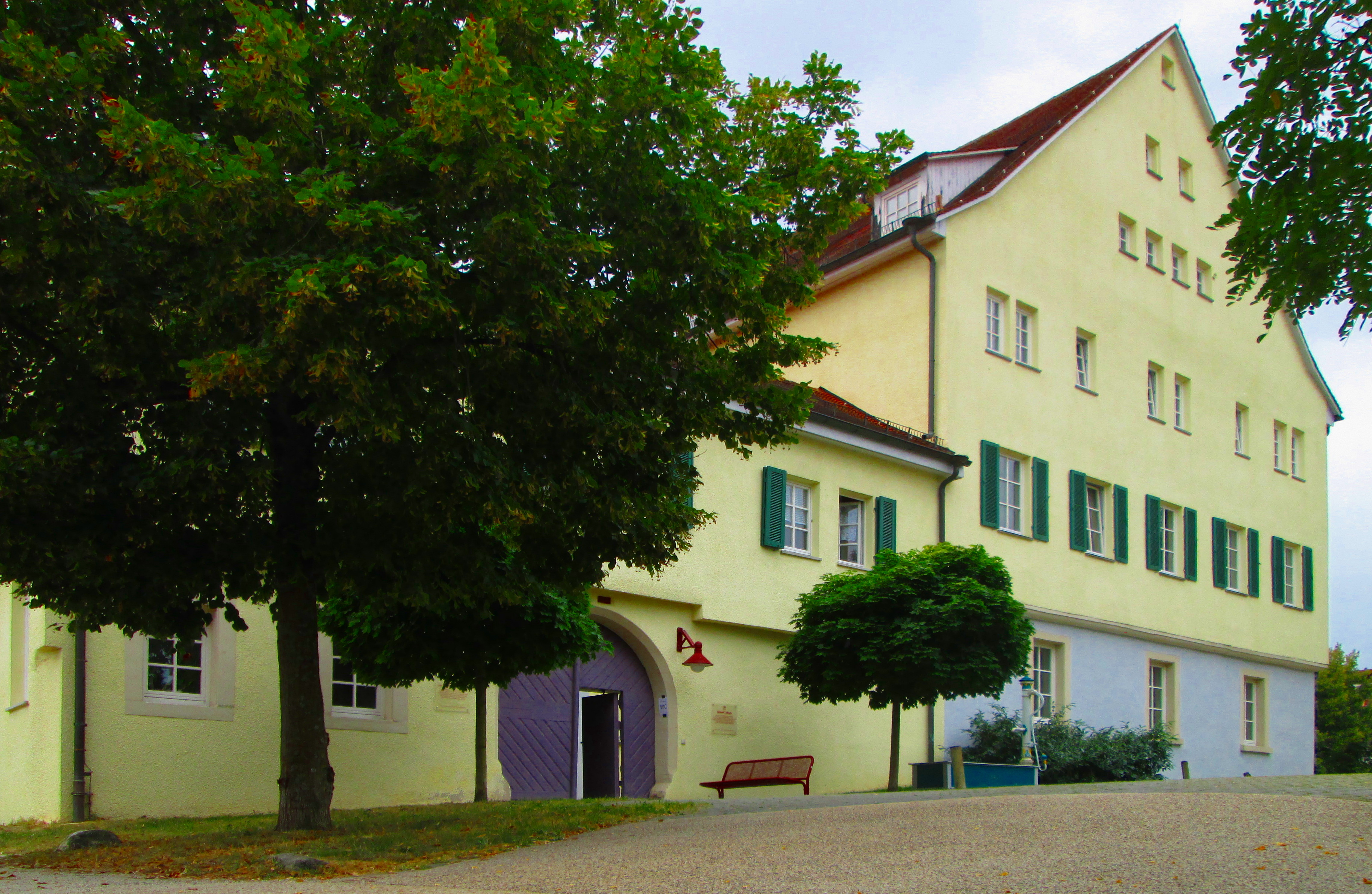 Urbach castle